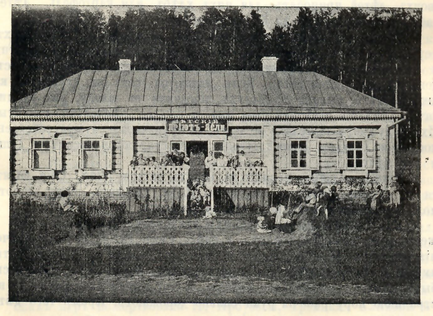 Детский приют-ясли Арбузов-Баранского отдела "Казанского общества трезвости" (Казанская губерния)